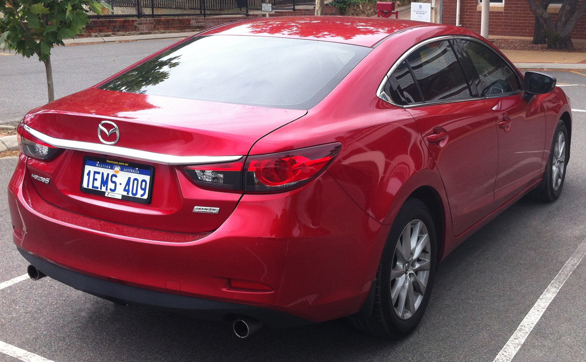 2014 Mazda 6 (GJ) Sports sedan. Photographed in Claremont, Western Australia Australia